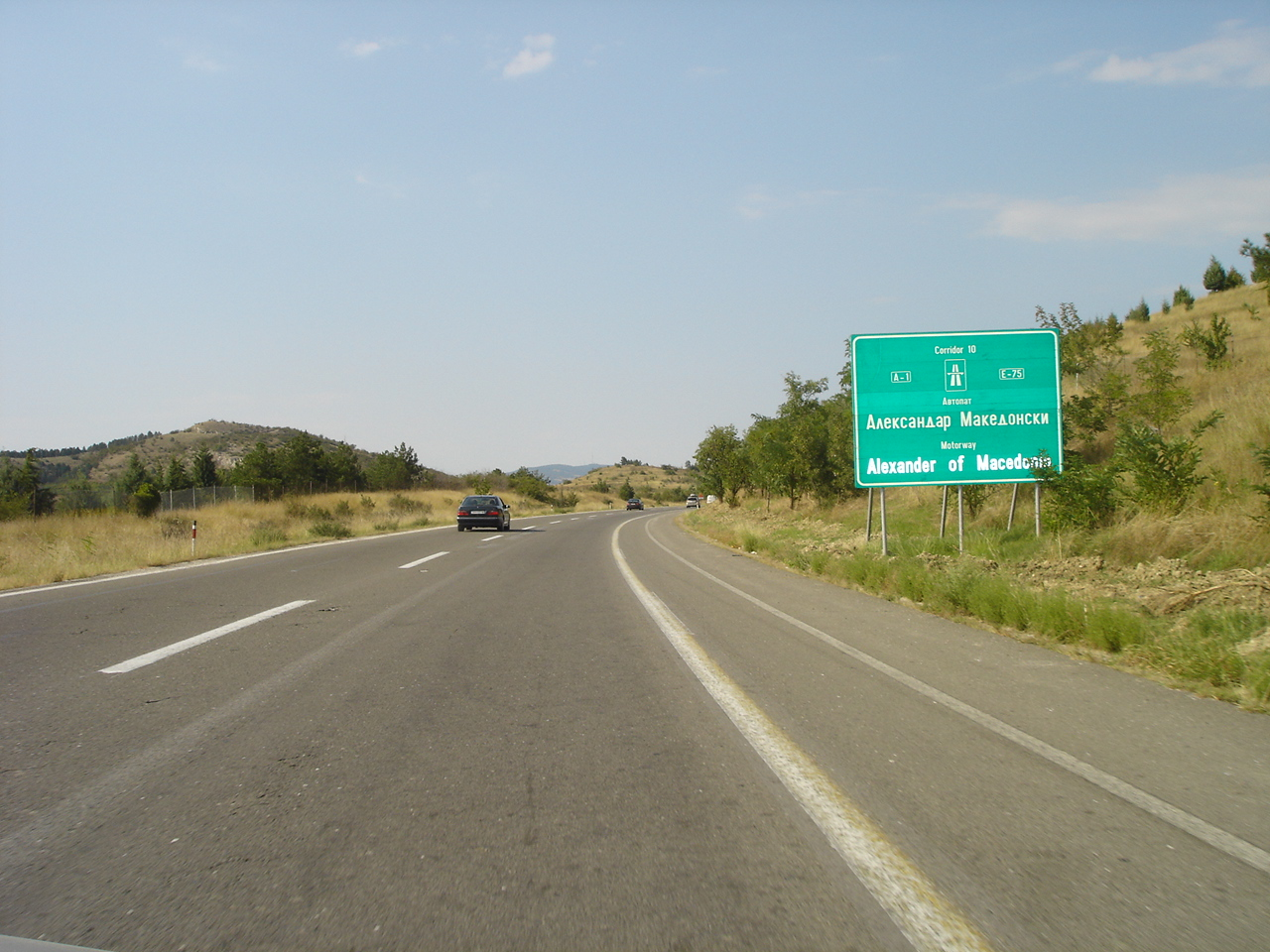 Alexander of Macedonia highway near Veles